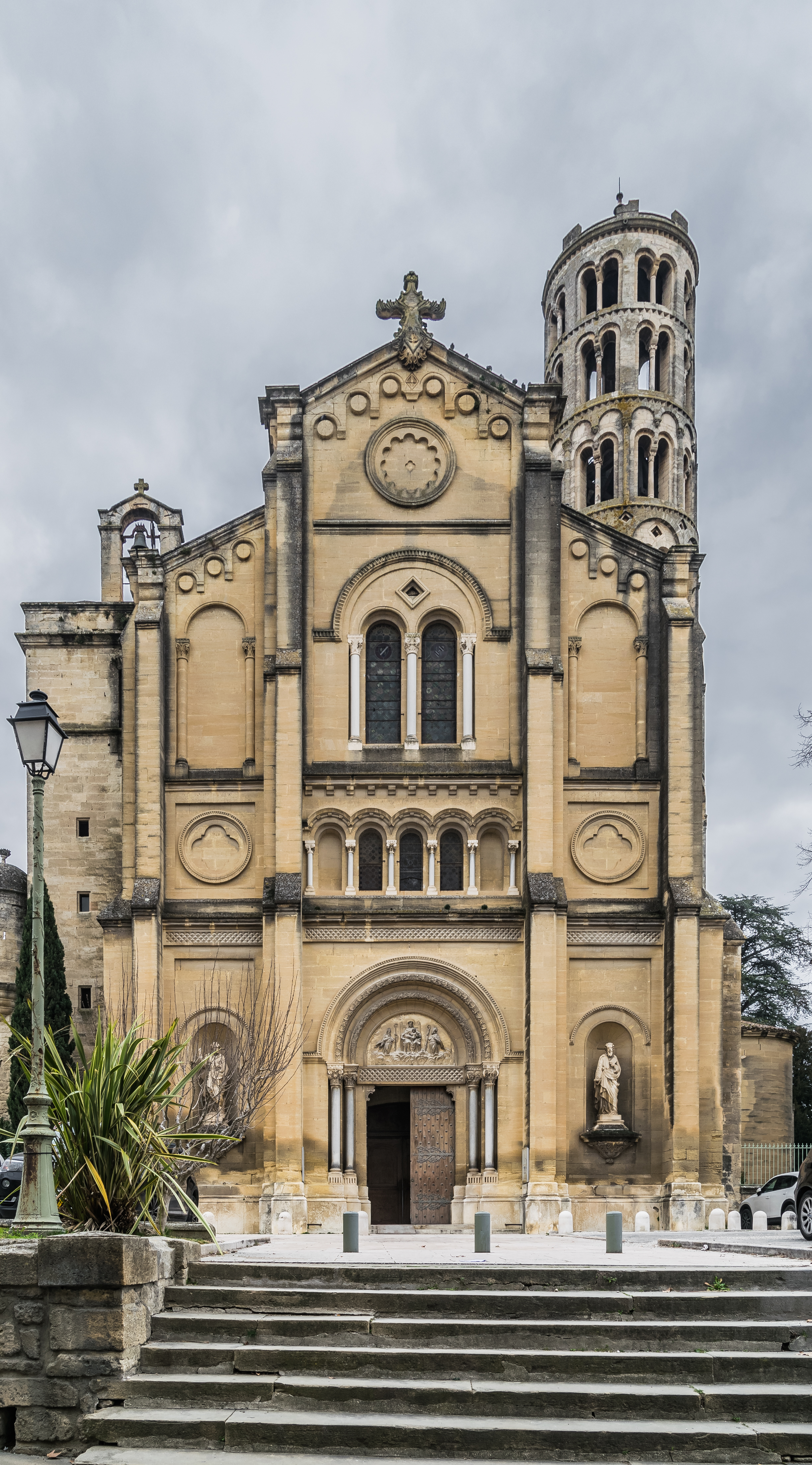 Saint Theodore of Amasea cathedral of Uzès, Gard, France .